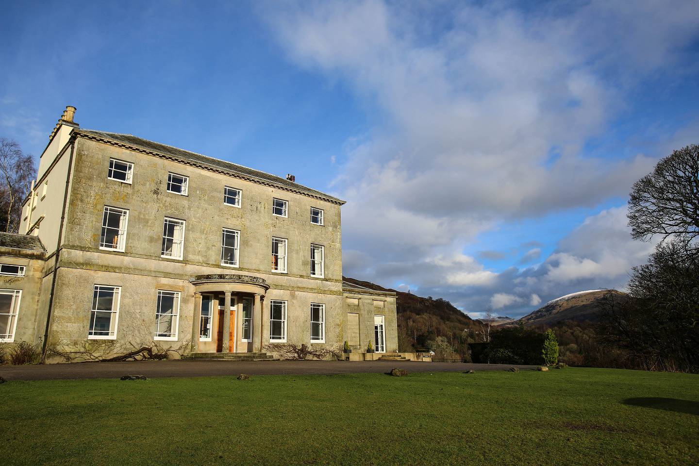 Photo of the front of Brathay Hall